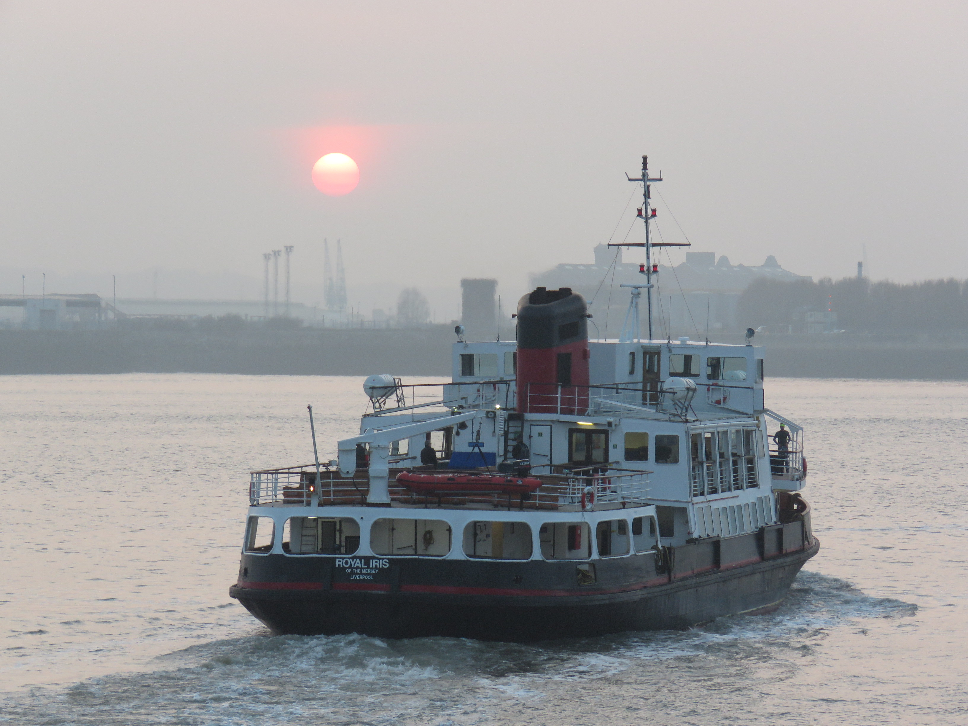 Royal Iris leaving Liverpool landing stage